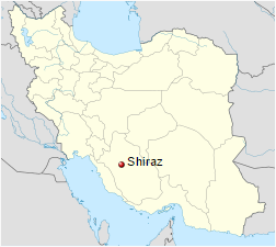 Location map of Shiraz, Iran